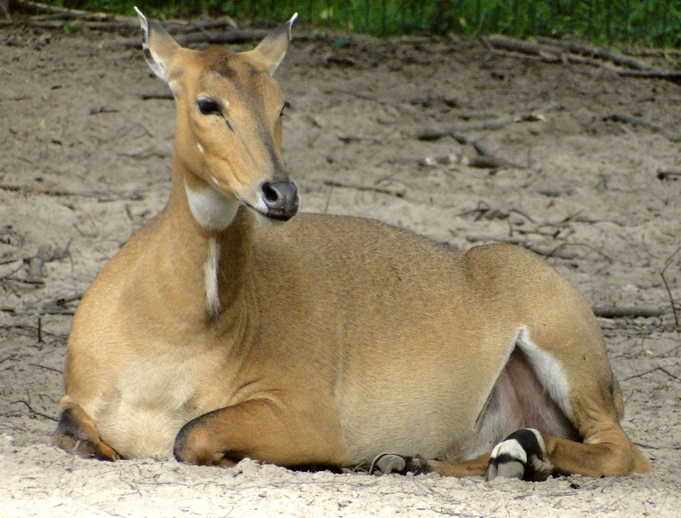 Female Nilgai